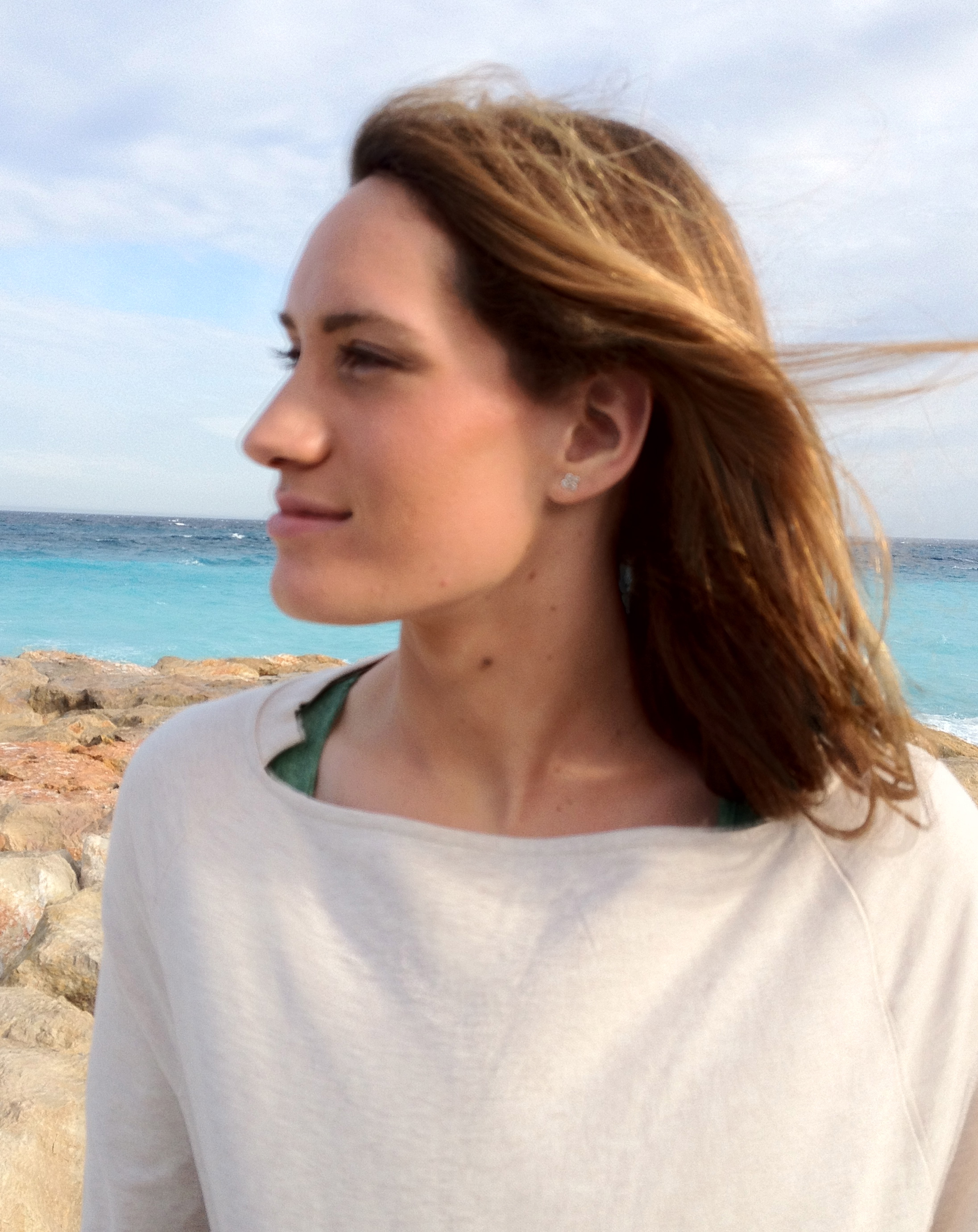 french swimmer Camille Muffat, april 2012